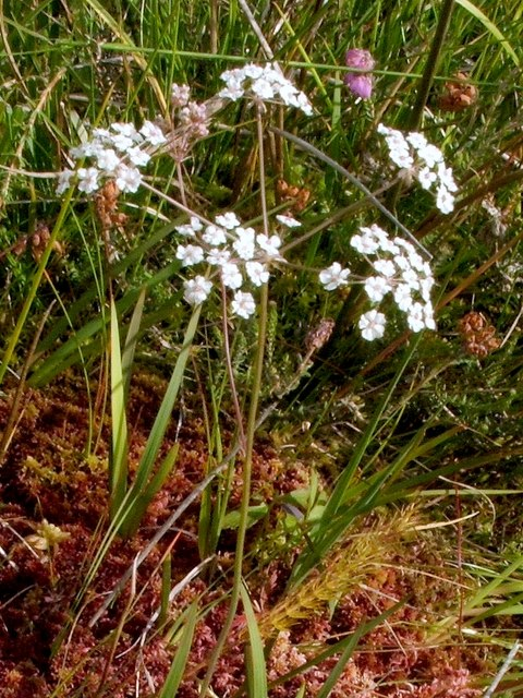 Whorled Caraway (Carum verticillatum) This species is found in damp acid meadows or grassland; one of the whorls of leaves that give the species its common name can be seen near the bottom of this image. Whorled Caraway is the most common umbellifer (member of the Carrot family) on this part of the moor, where it occurs in some extensive patches. It is very much a species of western Britain, as can be seen from its distribution map ; "Umbellifers of the British Isles" (BSBI Handbook No.2; T.G.Tutin; 1980) also discusses this. The species is rare or at least very local outside of this western (oceanic) zone. Plants with such a distribution tend to be those that require high moisture or humidity, while species with a northern or southern distribution tend to be more influenced by temperature.